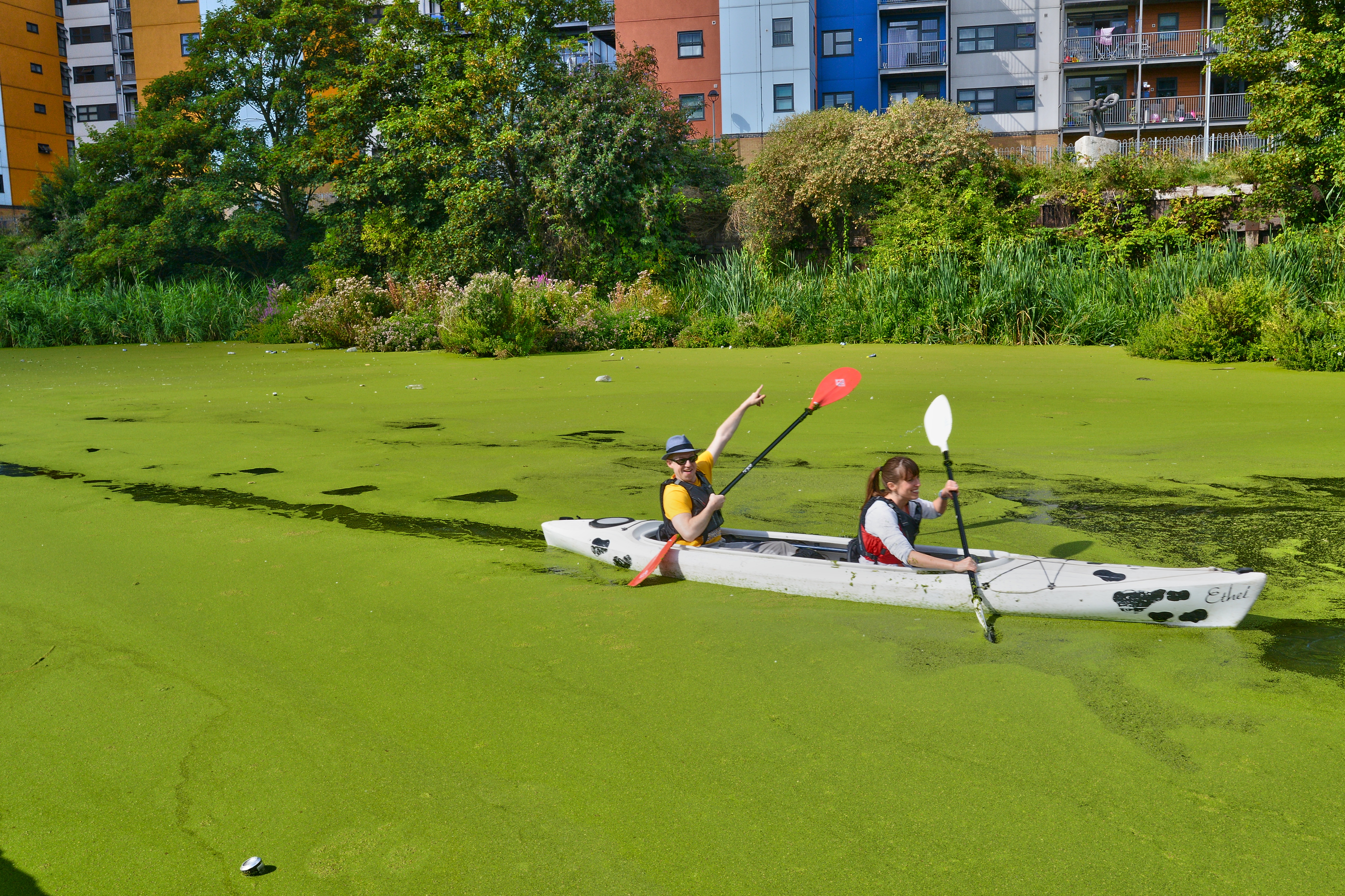 Negotiating algae one stroke at a time